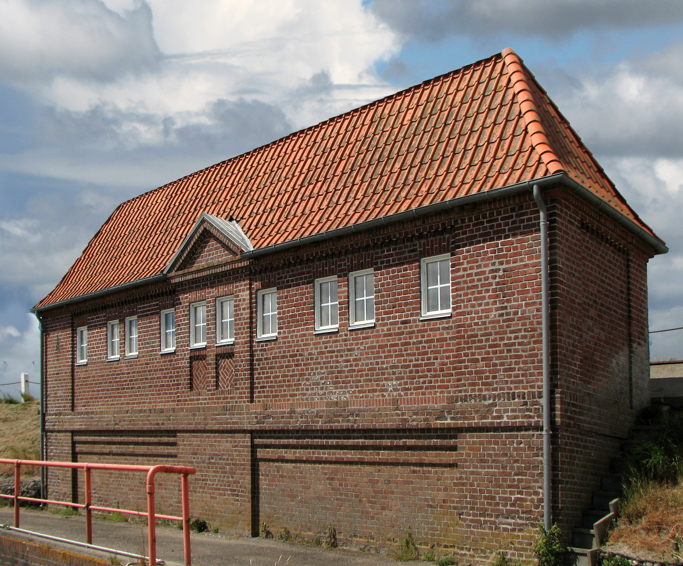 Ballum Sluice in Ballum Denmark